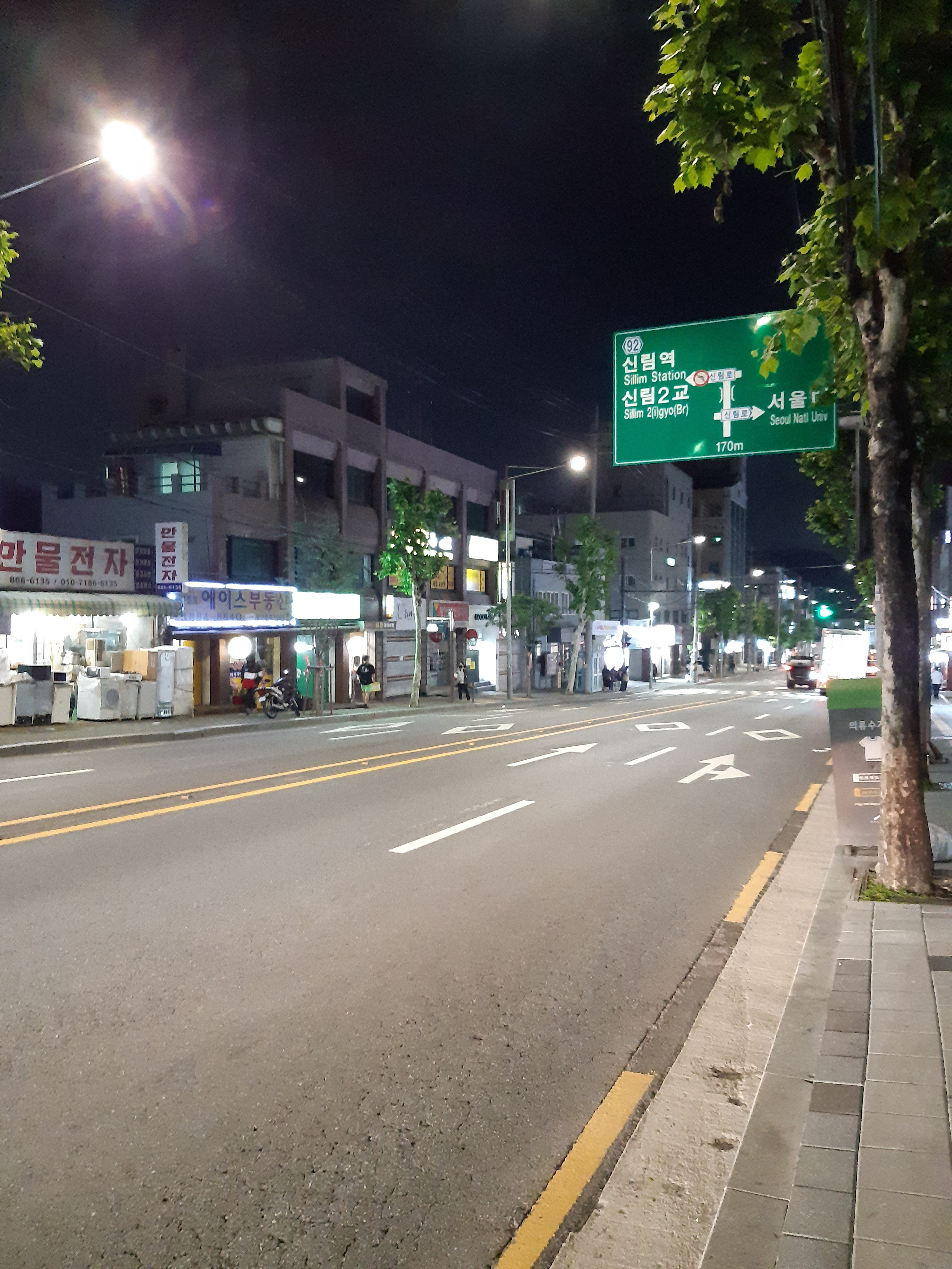 Sillim-dong, Gwanak-gu, seoul (Horam-ro)